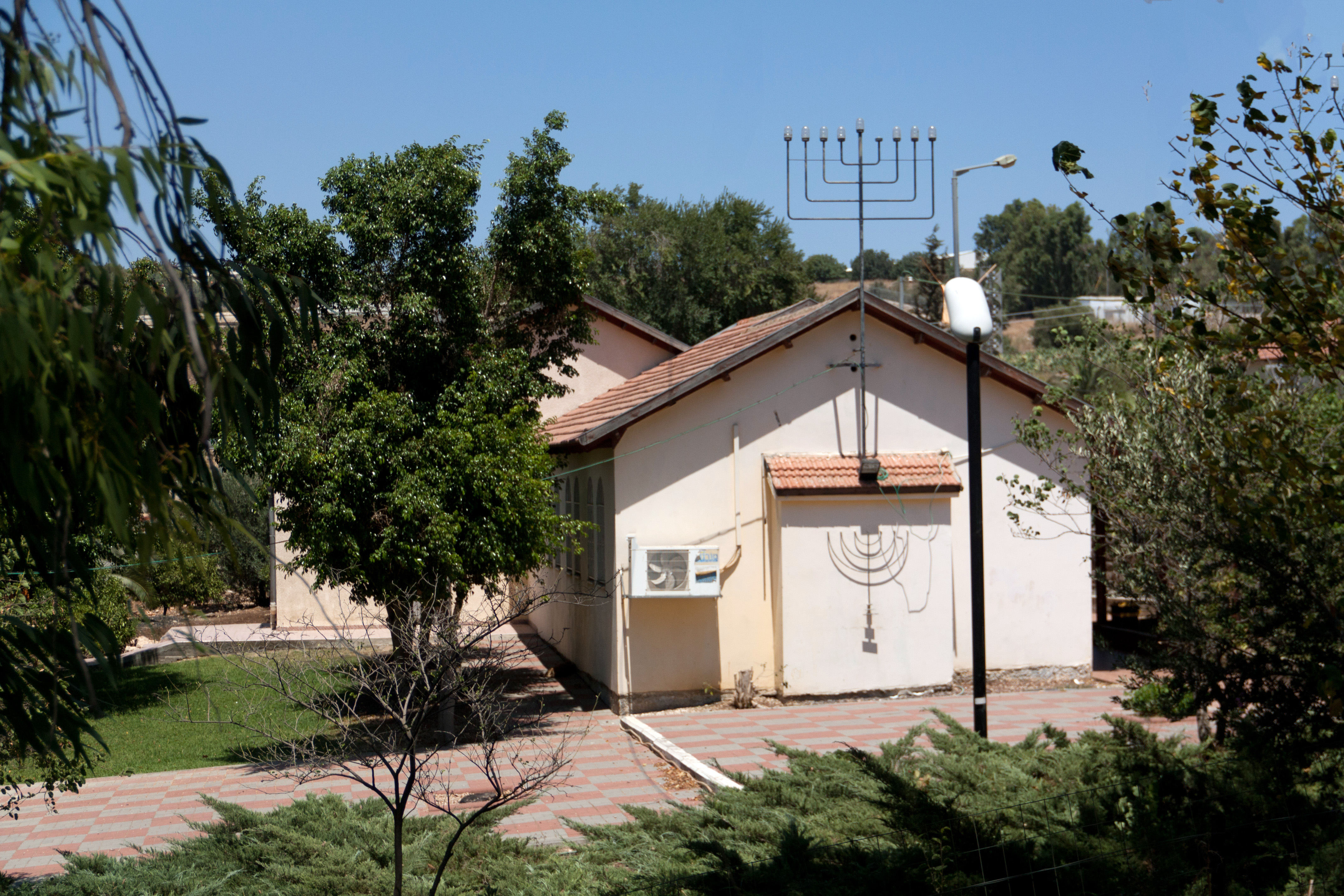 Synagogue of Elifelet